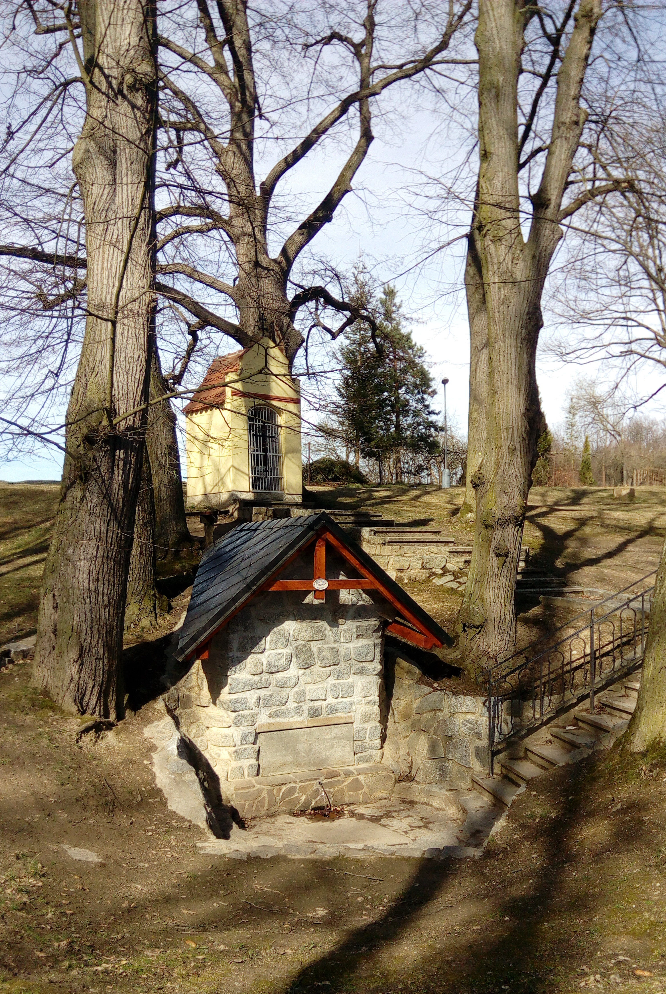 Spring at the Chapel of Our Lady of Lourdes in Hrdějovice, south Bohemia, Czechia